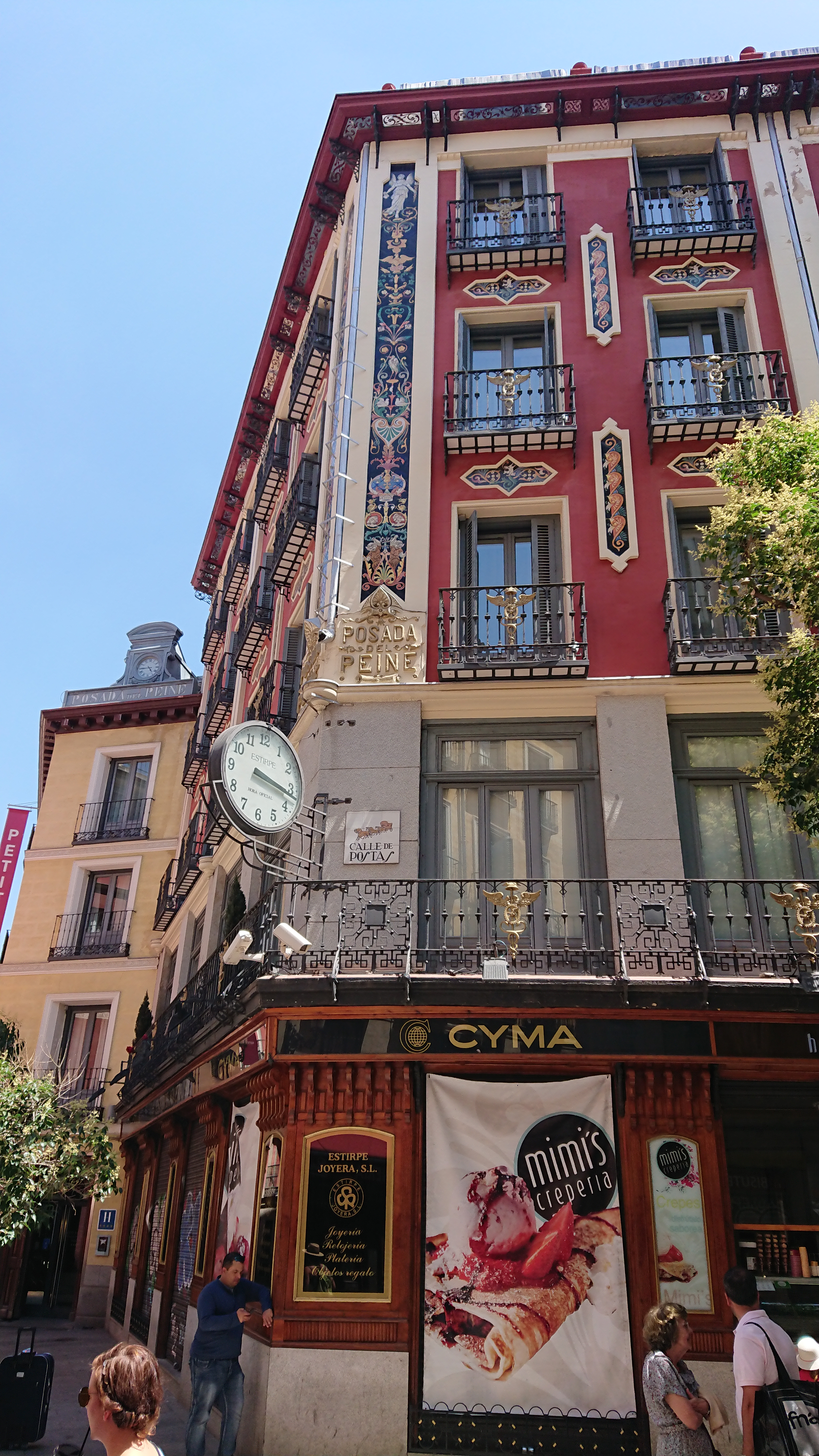 Posada del Peine, Madrid (Spain)